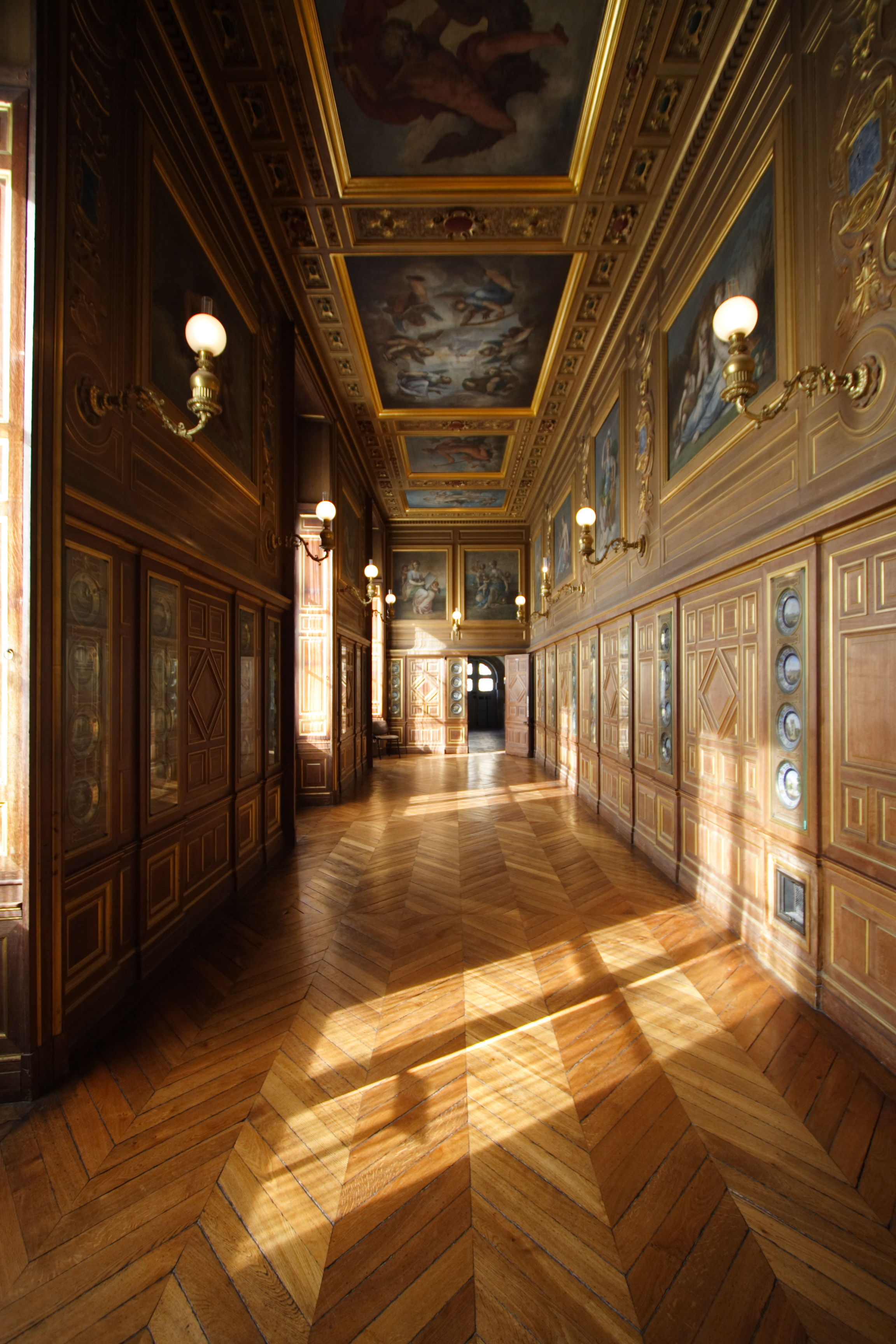 The gallery of plates in the Palace of Fontainebleau